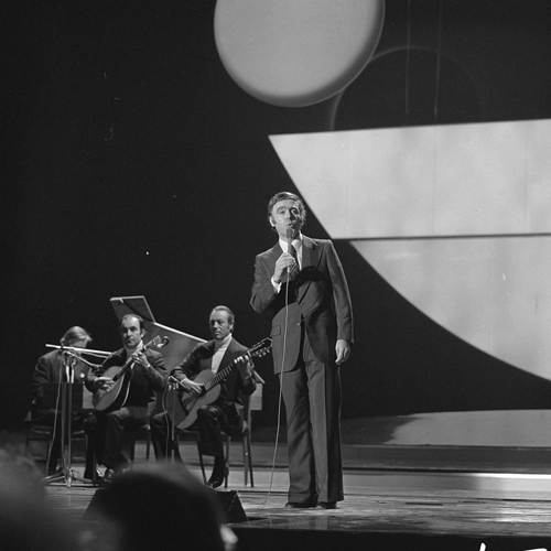 Carlos do Carmo at a rehearsal for the Eurovision Song Contest 1976.